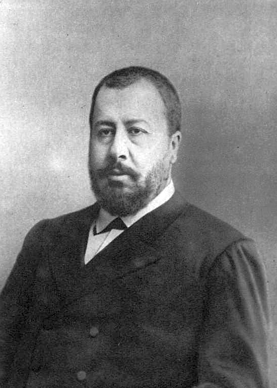 Nikolay Alekseyev (1852-1893), elected Mayor of Moscow,Russia in 1885-1893